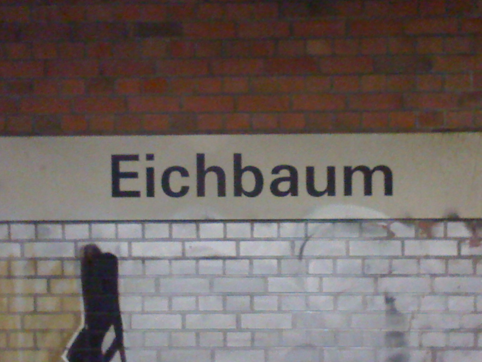 Underground station Eichbaum in Mülheim (Ruhr), name plate